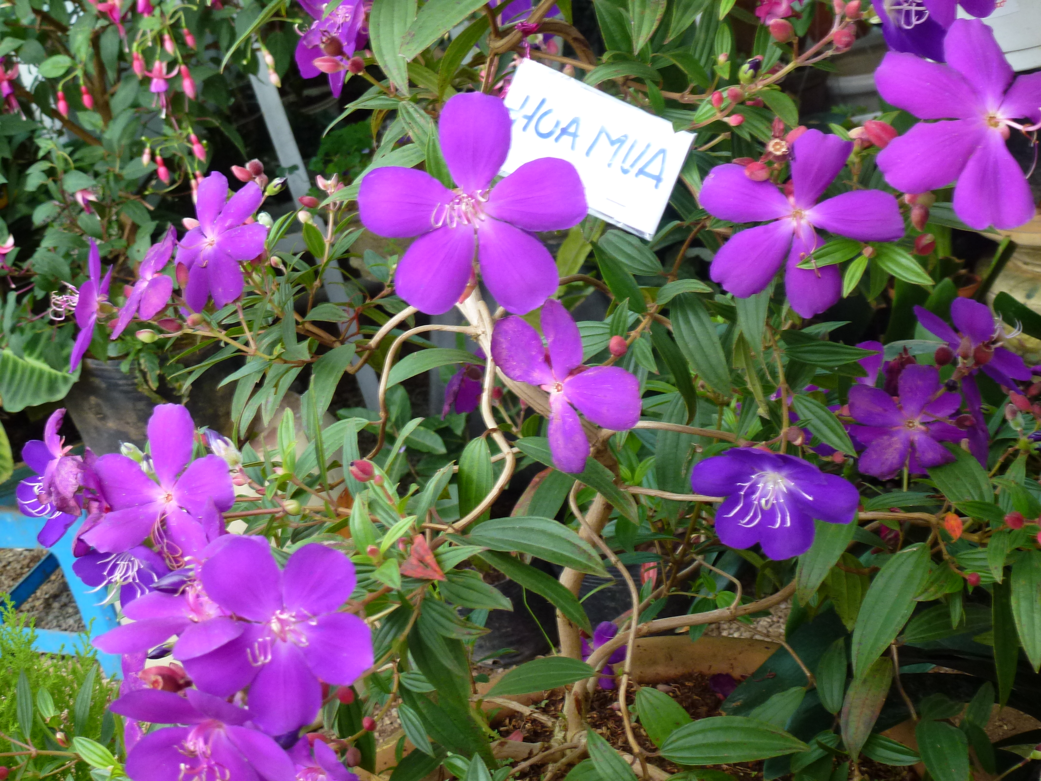 Melastoma candidum in Dalat, Vietnam